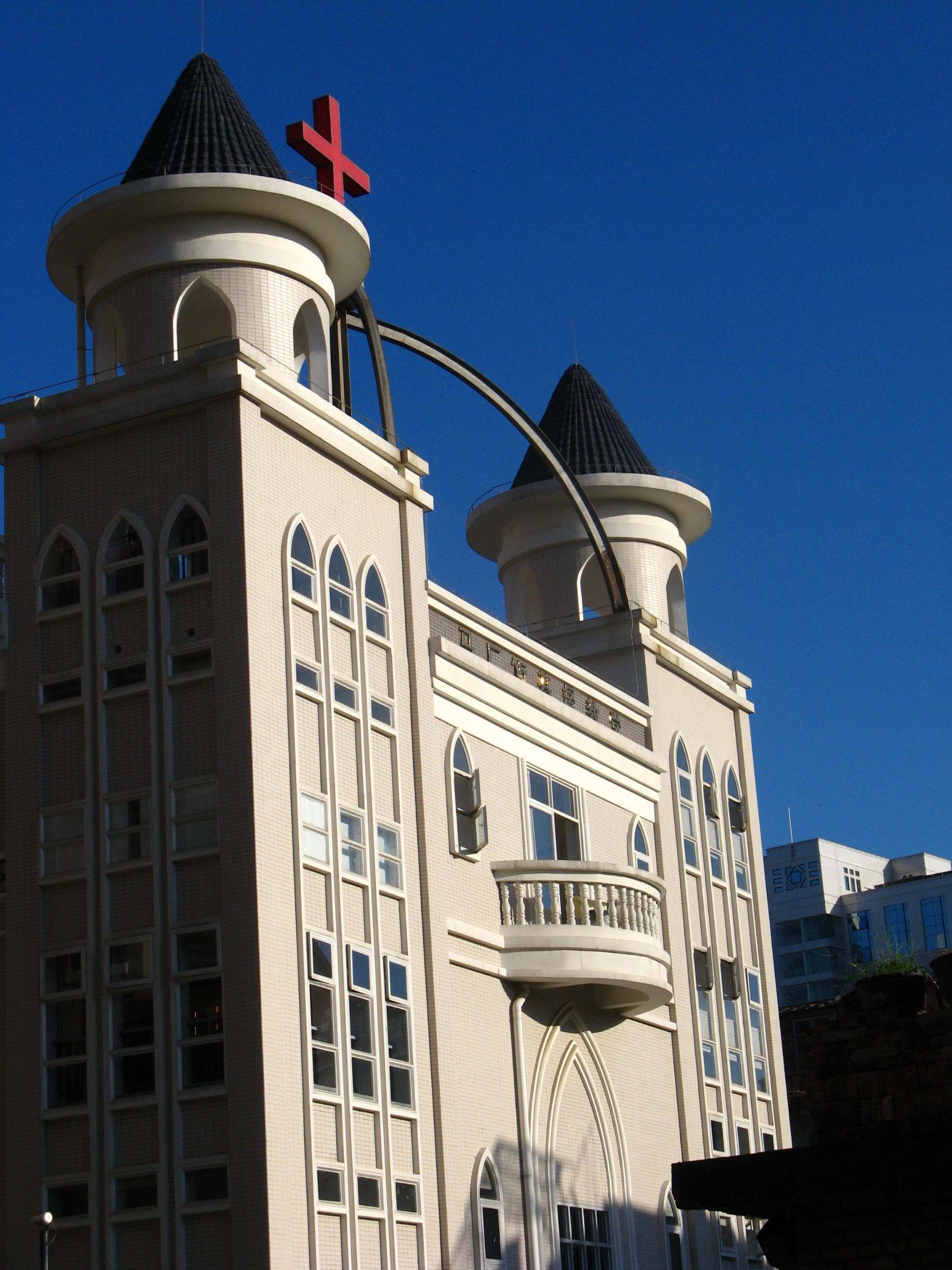 Machangjie Church, Fuzhou